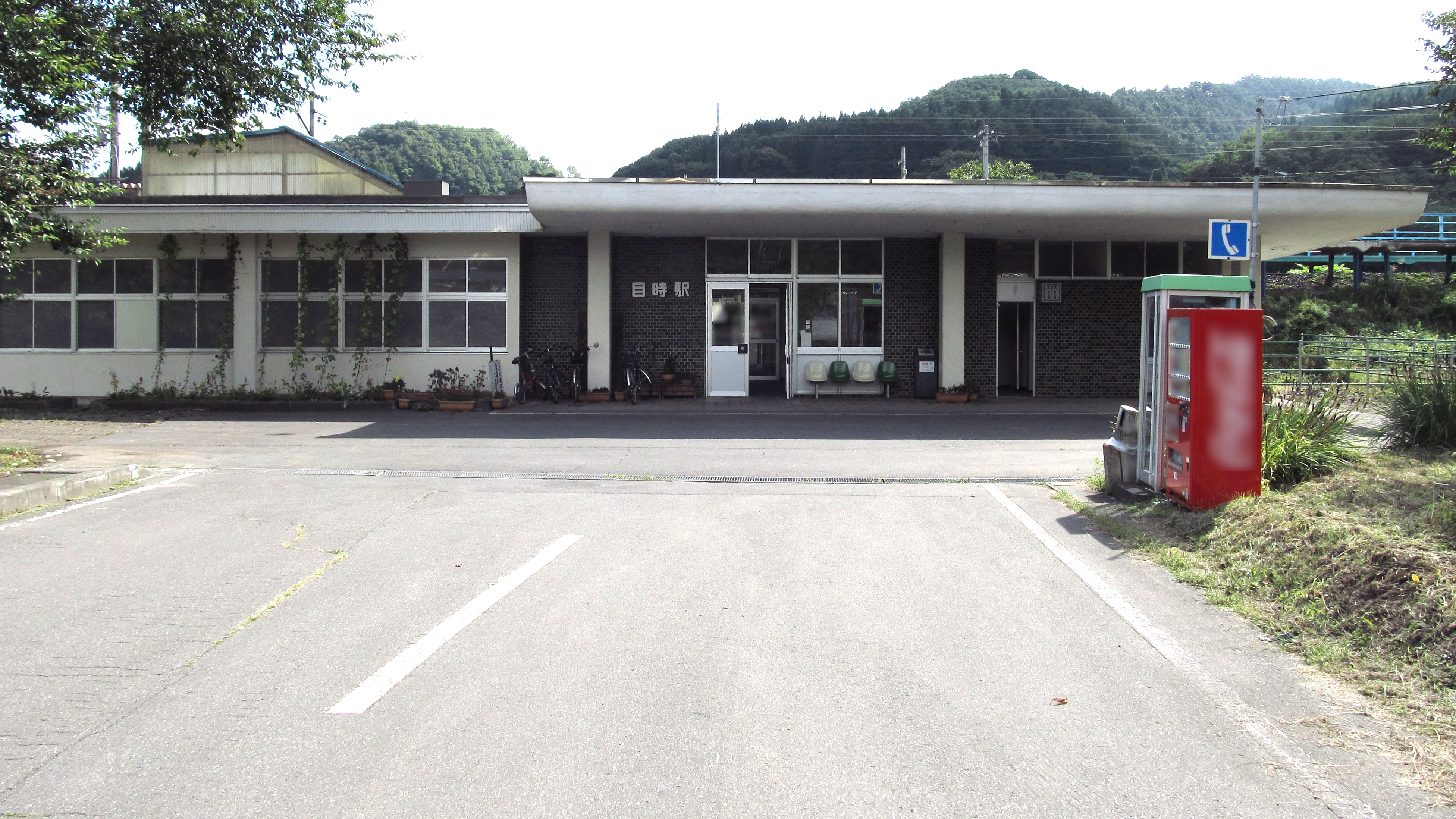 The building of Metoki Station on the Aoimori Railway Line and Iwate Galaxy Railway Line in Sannohe town, Aomori prefecture, Japan